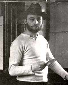 Photo of David Bomberg